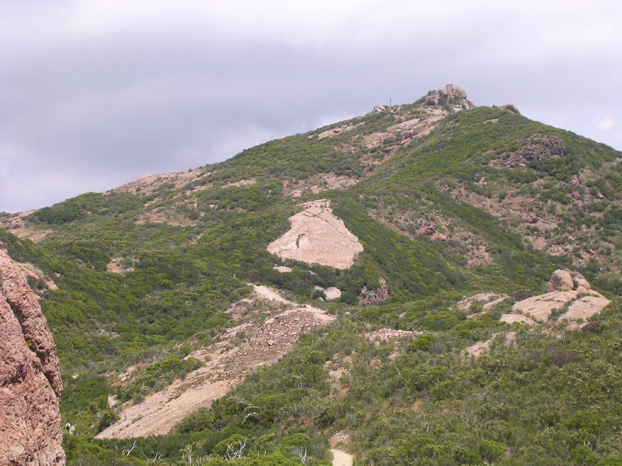 View of Sandstone Peak from Inspiration Point — in Circle X Ranch Park. The highest point in the Santa Monica Mountains, and part of the Santa Monica Mountains National Recreation Area. Coastal sage chaparral and woodlands habitat and sandstone rock formations.